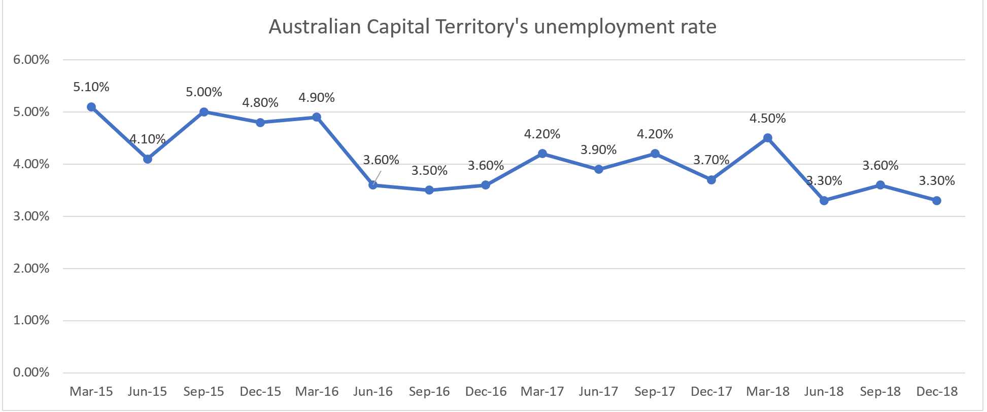 Time series data on unemployment rates in the Australian Capital Territory. Data from EDA ACT.